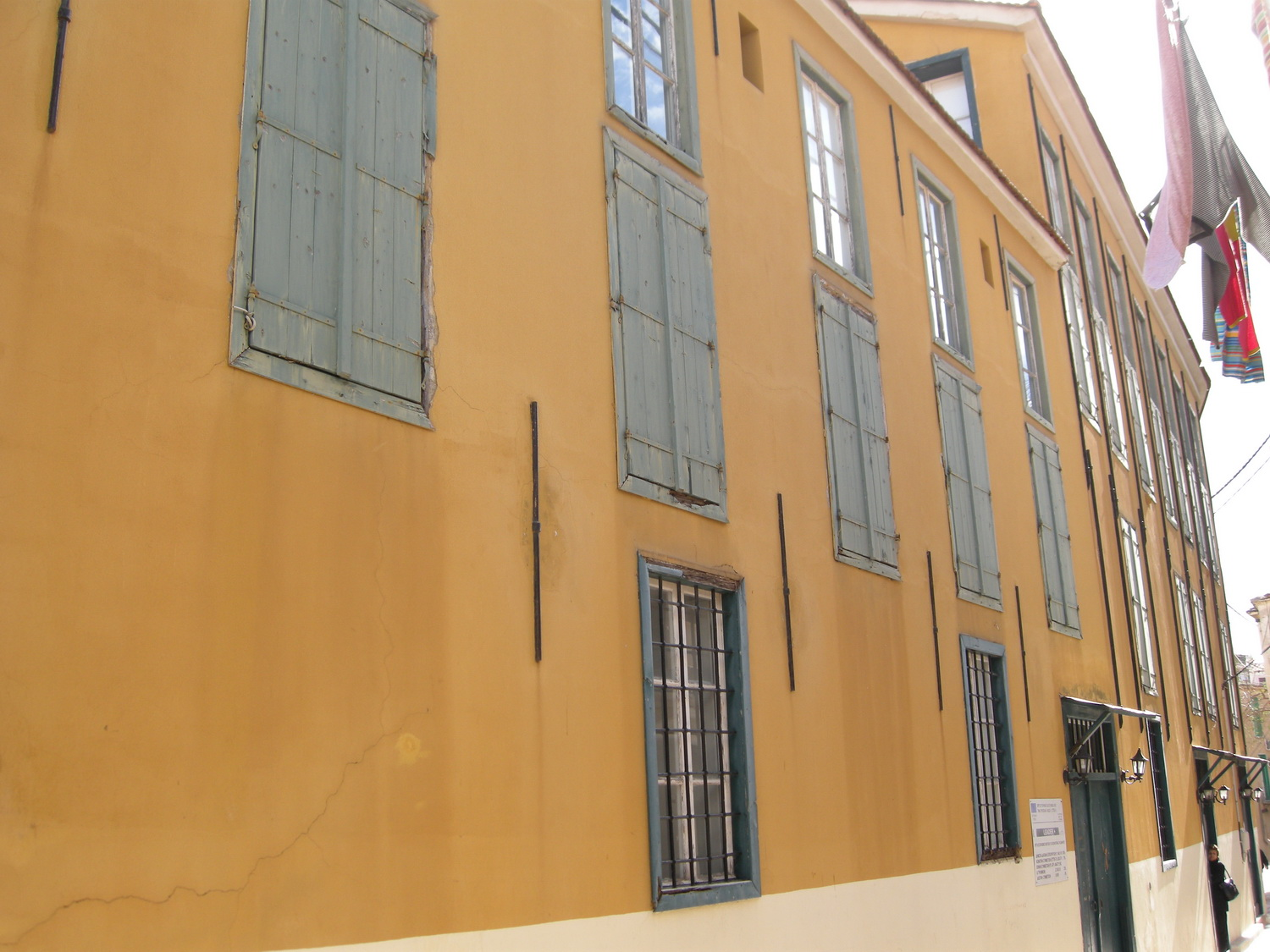 Veniamin Lesvios club building